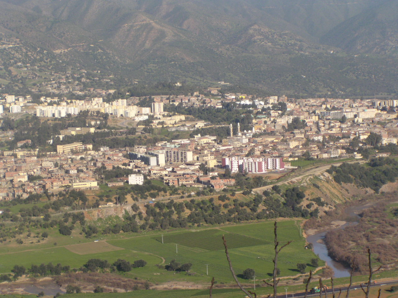 view of the village of palestro